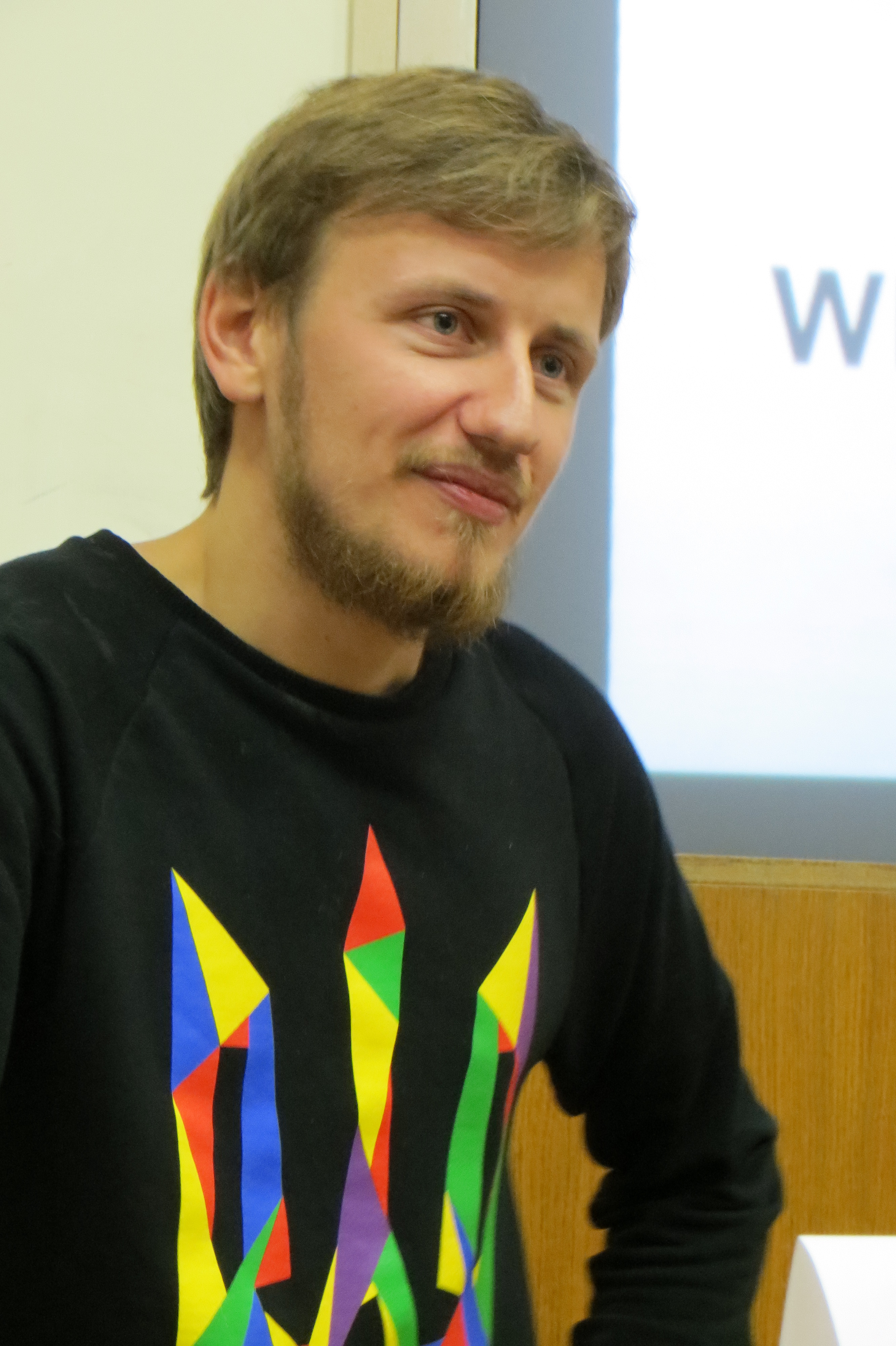 Bogdan Logvynenko in Kyiv University